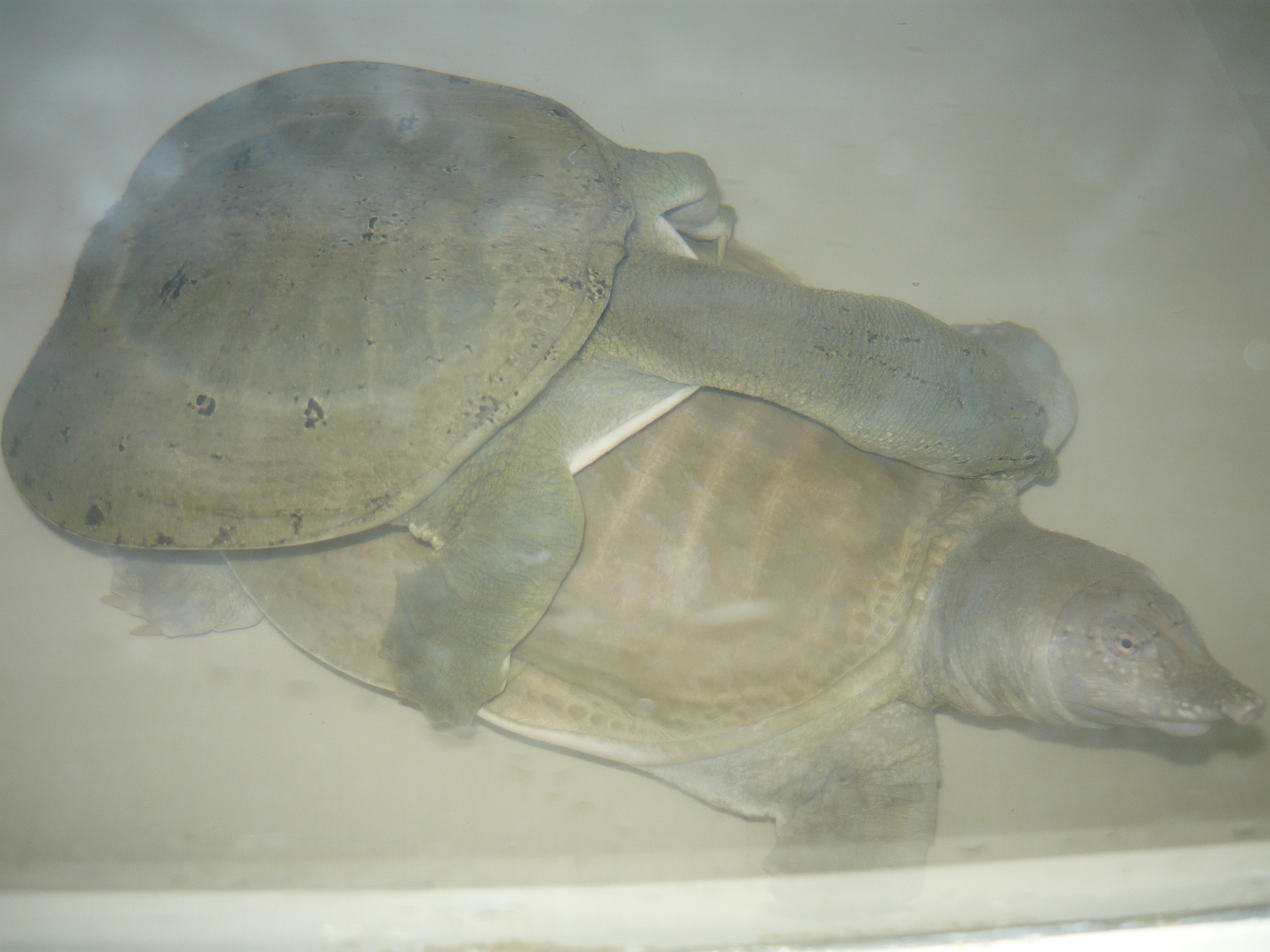 Pelodiscus sinensis mating